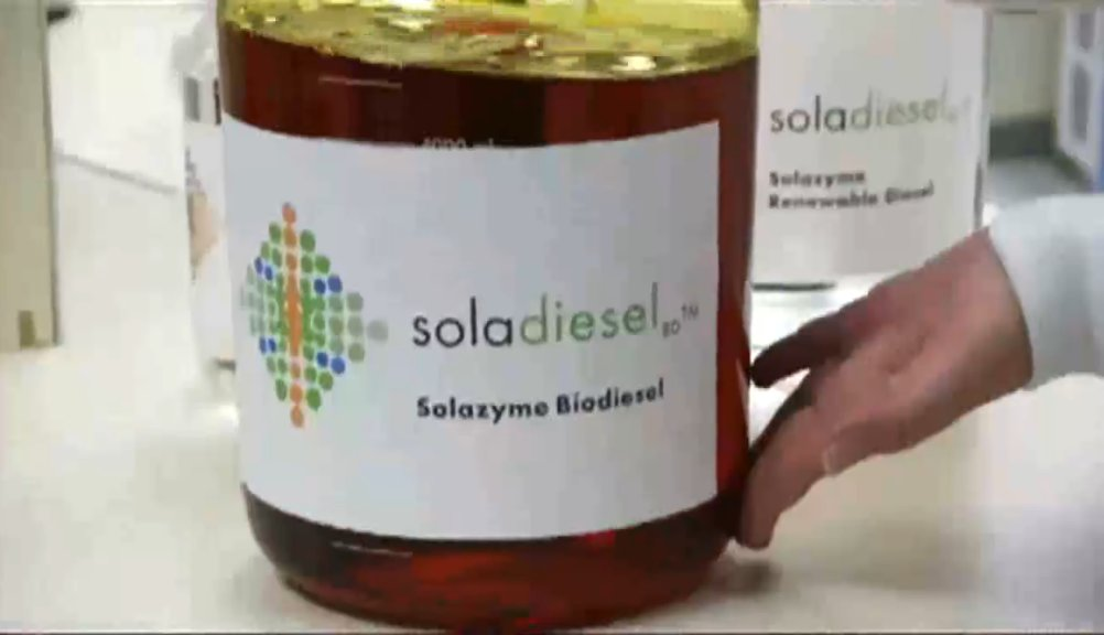 Container of Soladiesel, manufactured by Solazyme. Screen capture from the VOA video shown in the link. 1:22 mark